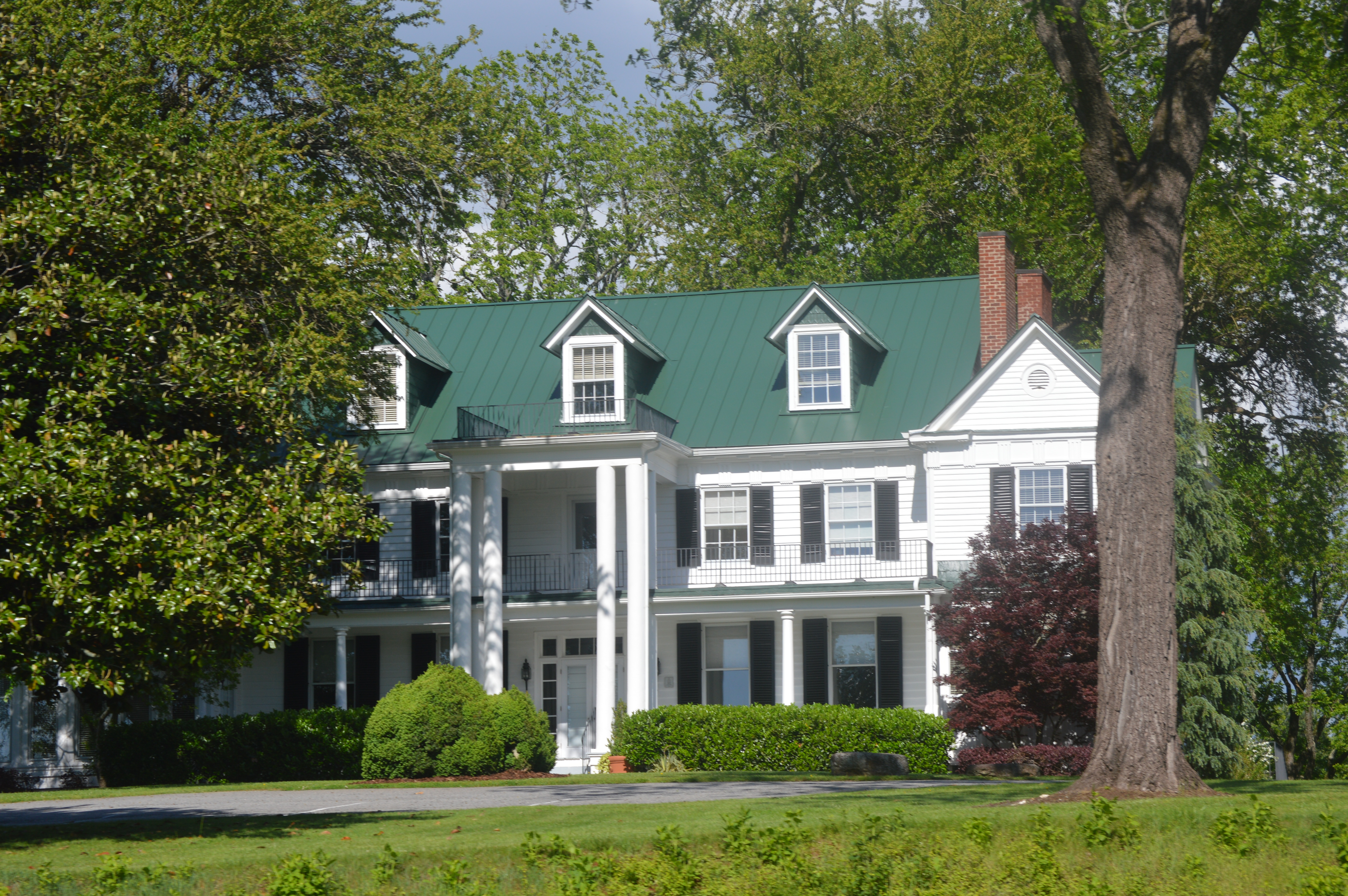 Front of the main house at the Beaver Creek Plantation, located on State Route 108 north of Martinsville in Henry County, Virginia, United States. Built in 1839, it is listed on the National Register of Historic Places.